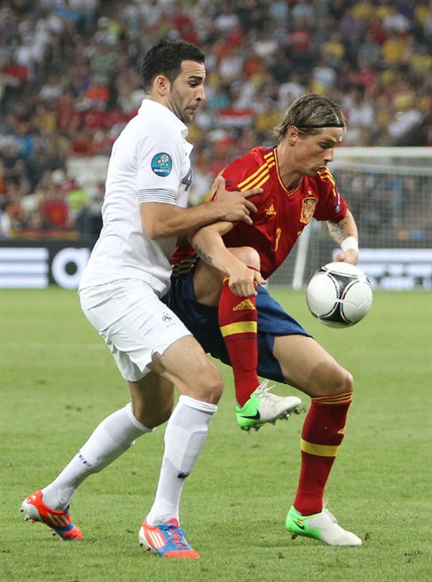 Adil Rami and Fernando Torres at Euro 2012 match Spain-France